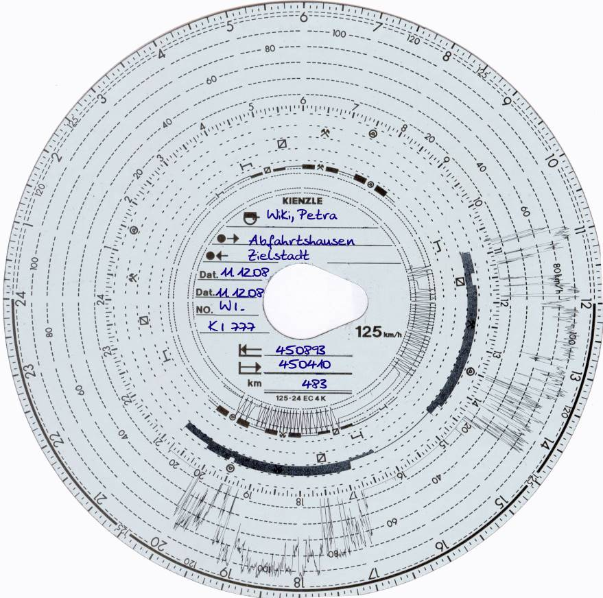 a tachograph disk